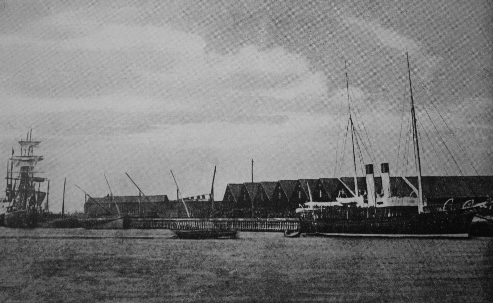 Toppila Harbour near Tervahovi (i.e. common tar stock of Oulu) before 1901. The ship on the right is the pilot-boat Eläköön.